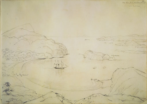 View looking down from hills into cove, with large ship moored in bay. 'Cook's observatory' written above group of rocks at opening of bay.